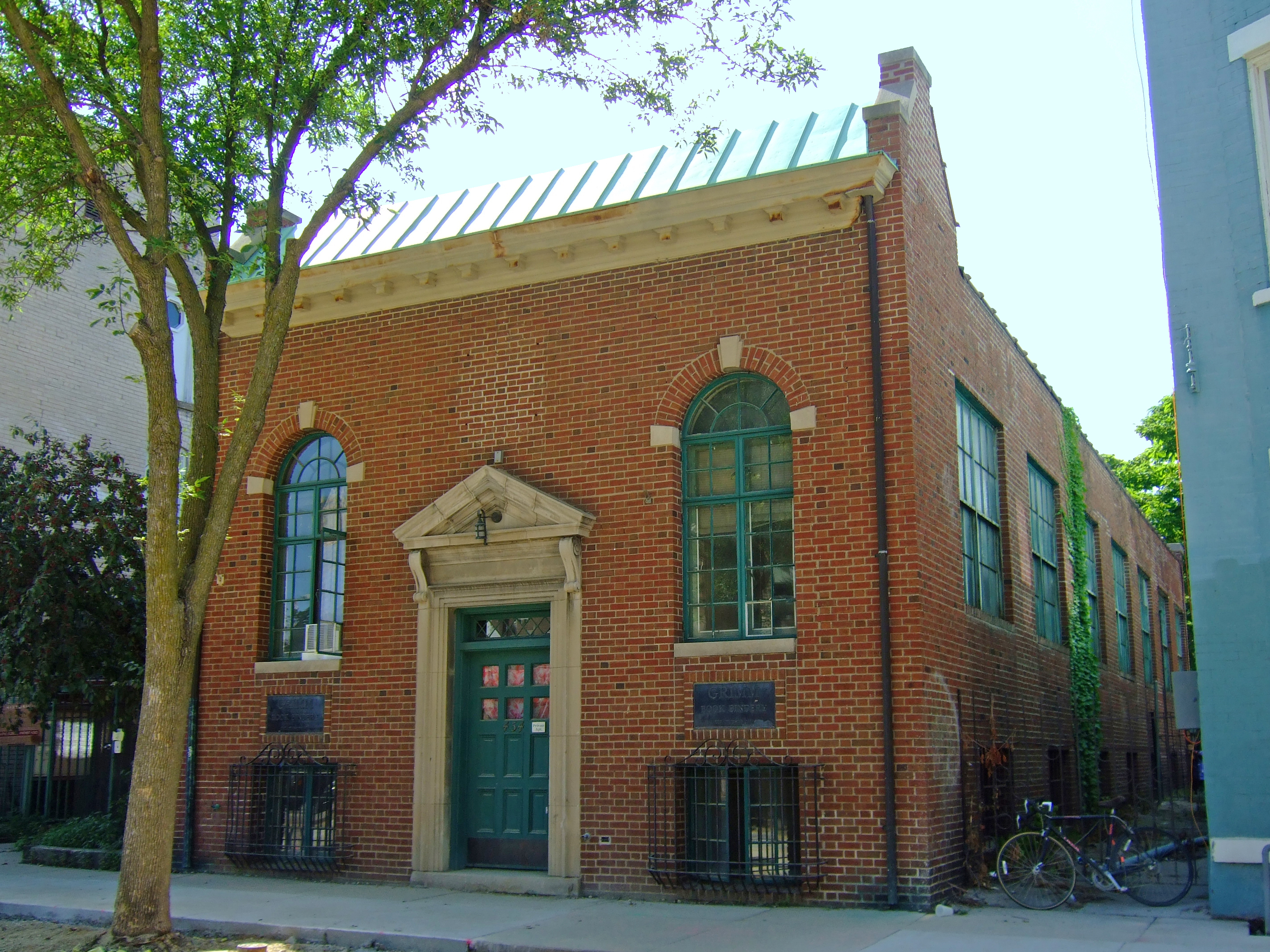 Grimm Book Bindery (ca. 1923) at 454 W. Gilman Street in Madison, Wisconsin, was added to the National Register of Historic Places in 1986. The building is modeled on Benjamin Franklin's bindery in Philadelphia.